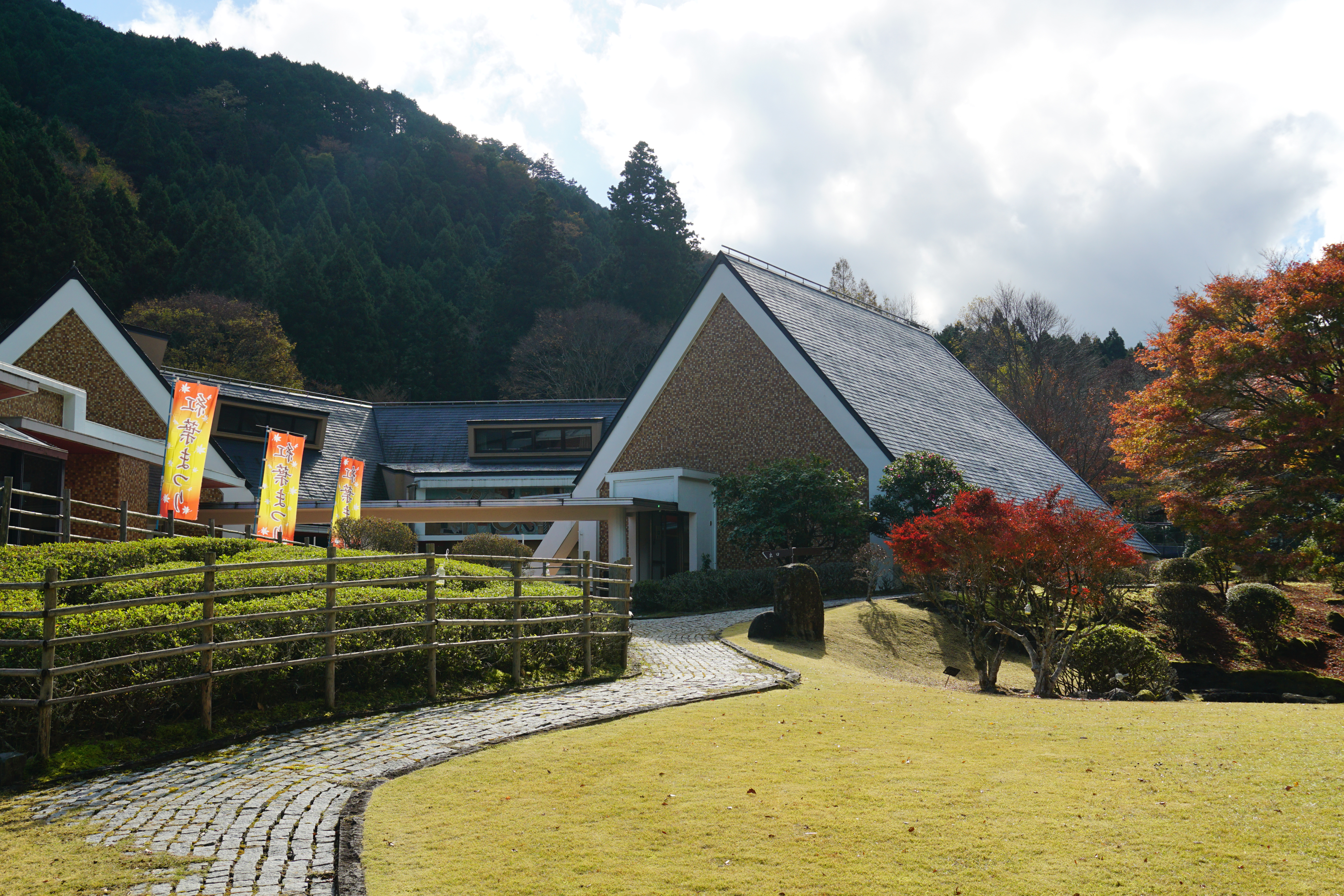 Showa_no_mori_hall in Izu, Shizuoka prefecture, Japan.